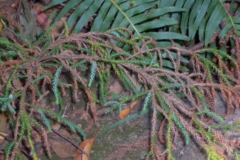 Pherosphaera fitzgeraldii (syn. Microstrobos fitzgeraldii) with Blechnum fern at Mt Tomah